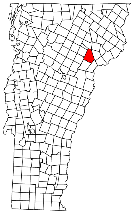 Description: Map of Vermont towns with Danville highlighted Source: Map created by Jared C. Benedict on 26 March 2004. Copyright: © Jared C. Benedict.